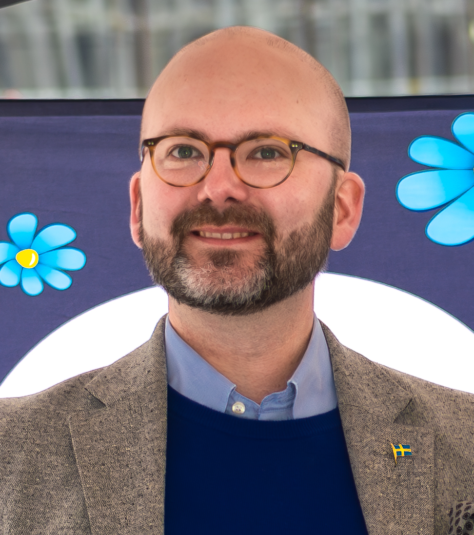 Charlie Weimers campaigns at Sergels torg before the European Parliament elections 2019.